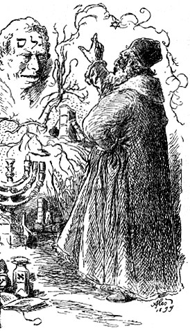 Rabi Loew and Golem.